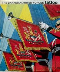 Full achievement of Canadian Coat of Arms on a flag